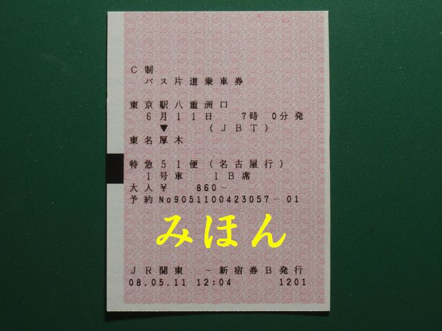 Tomei Highway Bus "Limited Express No.51" Ticket